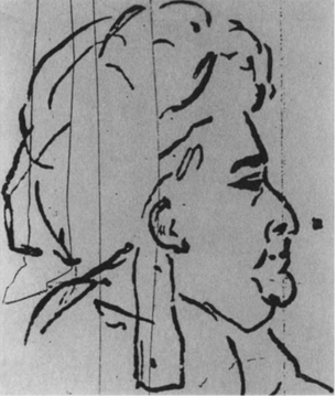 Emily Pitts Stevens (sometimes spelled "Emily Pitt Stevens", sketch from "St. Louis Post-Dispatch", 24 Oct. 1884.